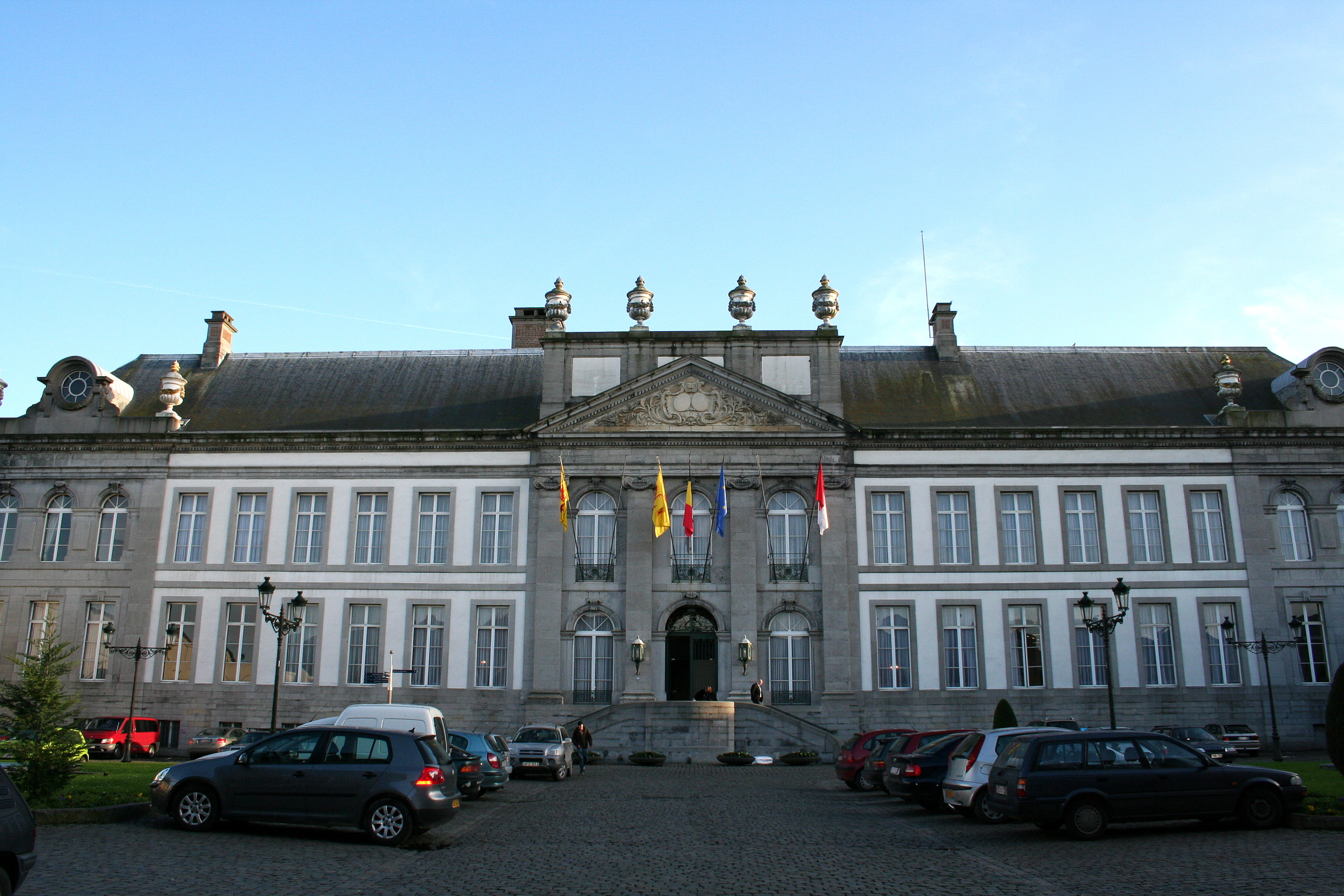 Tournai (Belgium), the old Abbot palace of the St. Martin abbey (1763) actual City hall.